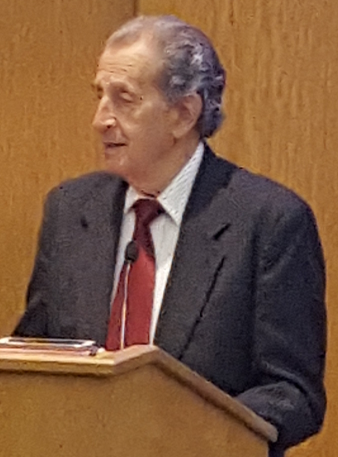 Rodrigo Borja delivering a presentation on Climate Change at Harvard University.